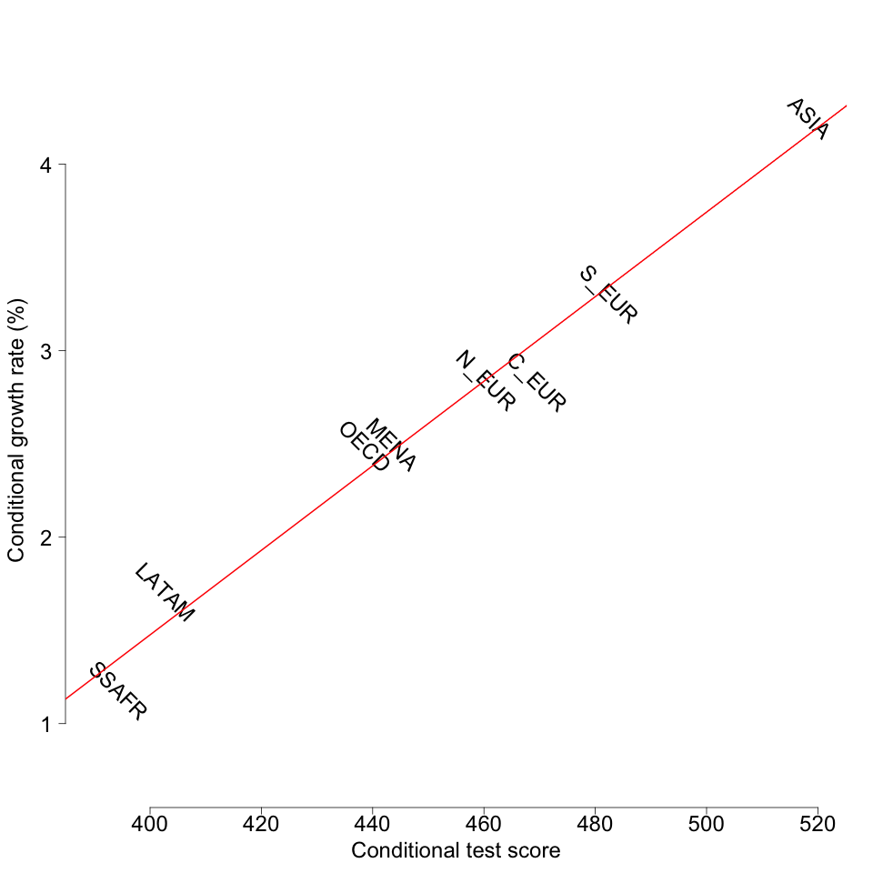 Partial regression plot of annual rate of growth in real GDP per capita vs. scores on standardized tests of student achievement 1960-2000, both adjusted from 1960 GDP per capita. This is similar to Figure 1.1 in Hanushek and Woessmann (2015) but created from the first 8 rows of their Table 1A.1. Also, it's not clear what countries are included in "E-ASIA" in their Figure 1.1. "ASIA" in this plot includes China, Hong Kong, India, Indonesia, Japan, Republic of Korea, Malaysia, Philippines, Singapore, Taiwan, and Thailand. "ASIA" here includes the major countries in Southeast and South Asia, which are not normally considered part of East Asia. Sub-Saharan Africa (SSAFR) here includes only Ghana, South Africa, and Zimbabwe. Middle East and North Africa (MENA) includes Cyprus, Egypt, Iran, Israel, Jordan, Morocco, Tunisia, and Turkey. Southern Europe (S_EUR) includes Greece, Italy, Portugal, Romania, and Spain. Latin America (LATAM) includes Argentina, Brazil, Chile, Columbia, Mexico, Peru, and Uruguay. Central Europe (C_EUR) includes Austria, Belgium, France, Ireland, Netherlands, Switzerland, and United Kingdom. Northern Europe (N_EUR) includes Denmark, Finland, Iceland, Norway and Sweden. OECD countries include Australia, Canada, New Zealand and the United States. GDP data came from the Penn World Table.